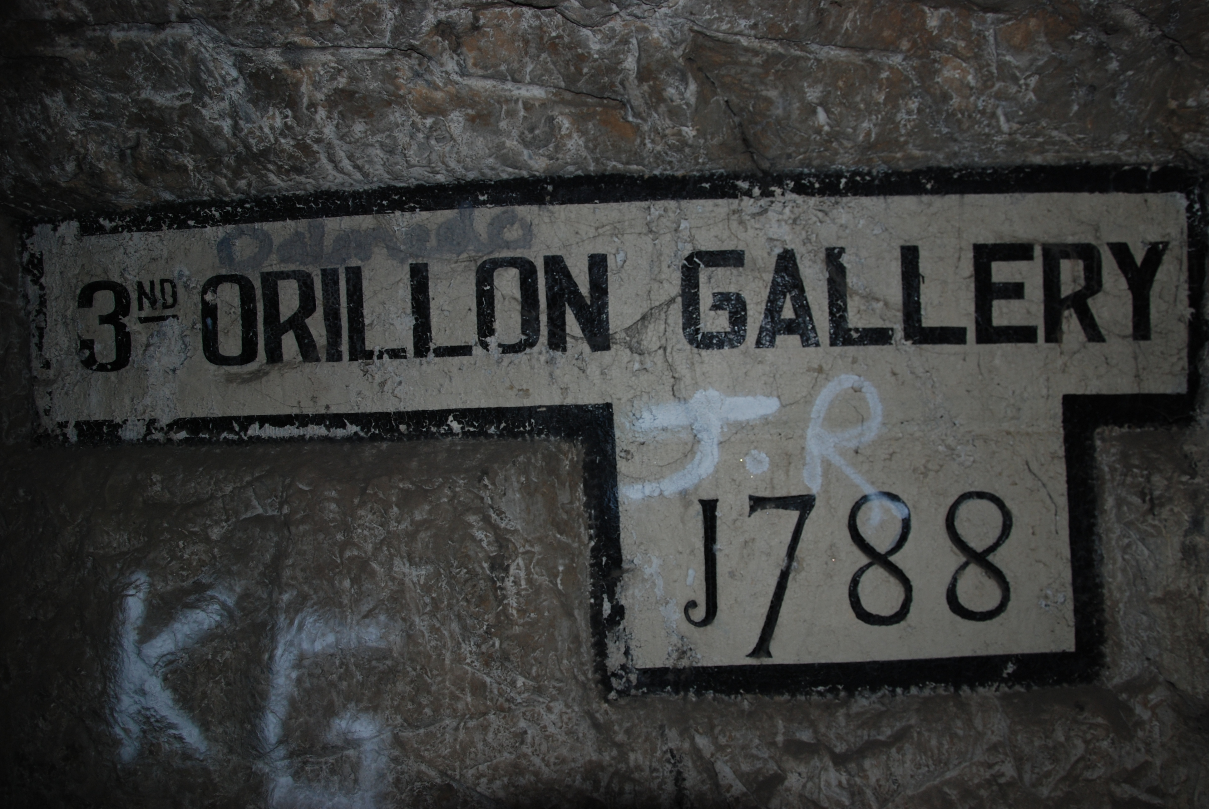 3rd Orillon Gallery on Gibraltar, original text: "3nd Orillon Gallery"